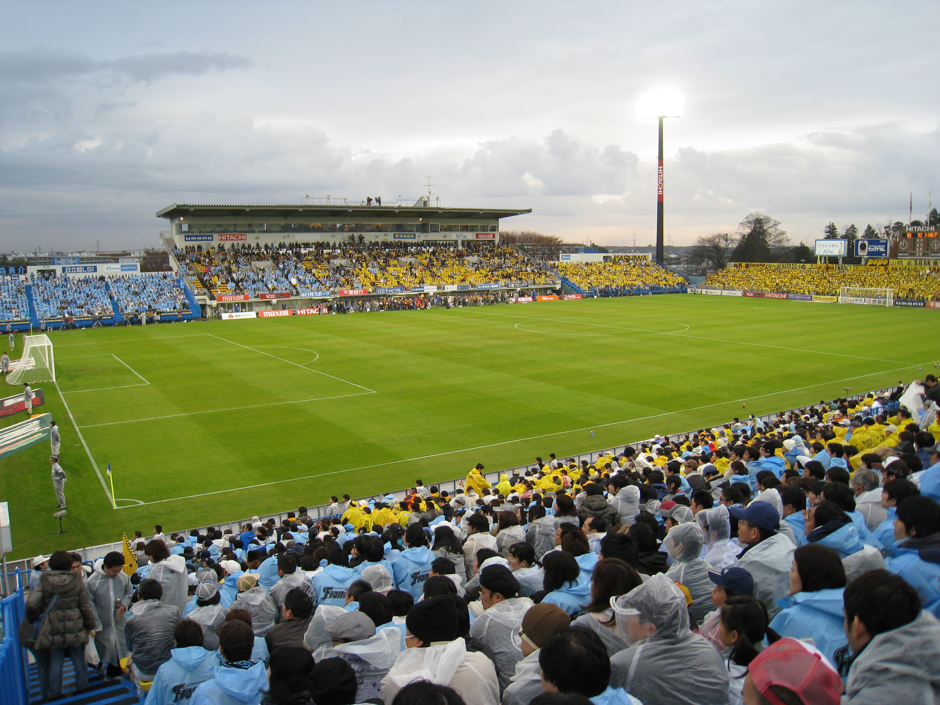 Hitachikashiwa soccer stadium